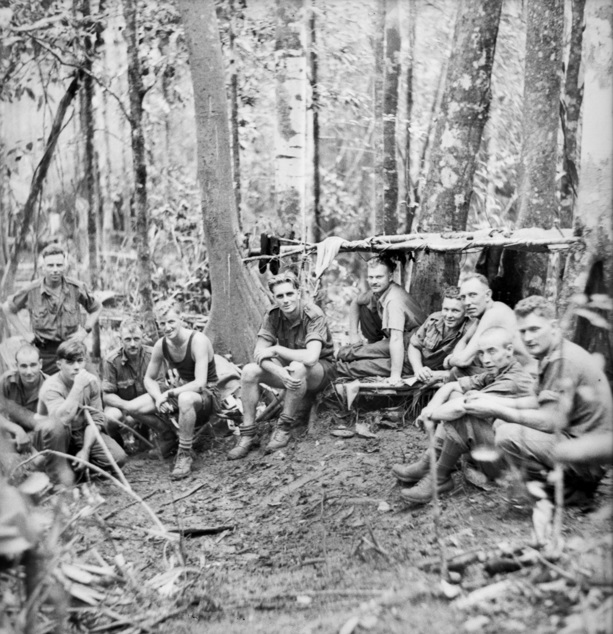 Men from the Australian 2/14th Infantry Battalion rest near Ioribaiwa after a series of battles along the Kokoda Track, September 1942